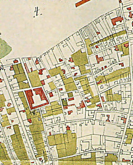 1760s map of Kadashi area in Moscow